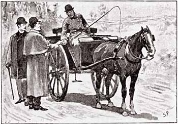 Illustration of the Sherlock Holmes short story The Speckled Band, which appeared in The Strand Magazine in February, 1892. Original caption was "WE GOT OFF, PAID OUR FARE."